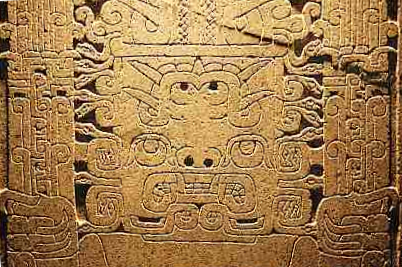 Great wall at Chavín de Huantar. Image from :es:Comisi%C3%B3n_de_Promoci%C3%B3n_del_Per%C3%BA. Fixed perspective distortion in Estela.jpg image. thumb|200px|Estela.jpg